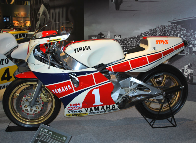 Yamaha YZR500 (OW76), All Japan Road Race Championship 1984, Tadahiko Taira